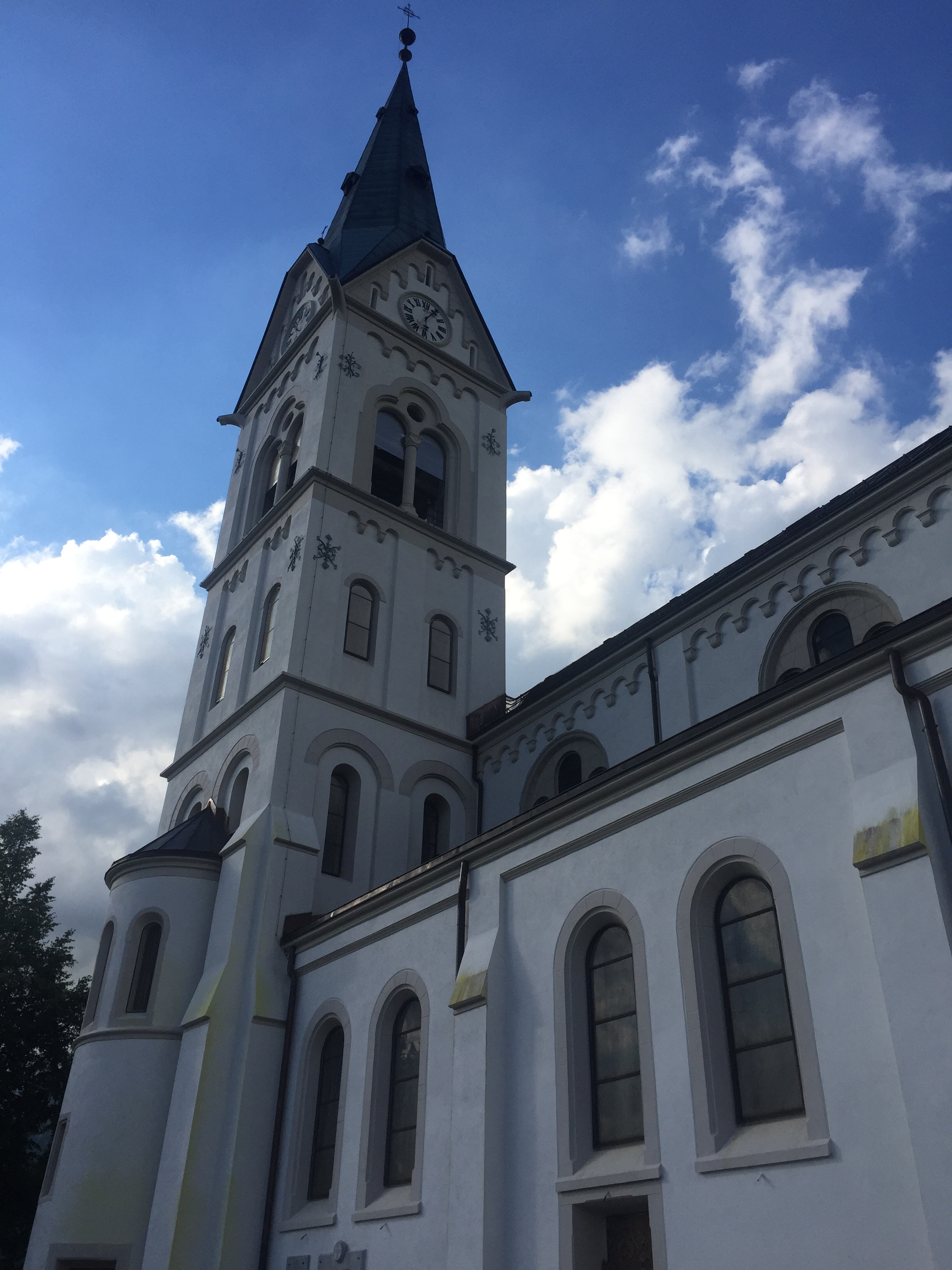 View of the parish church of the sacred heart of Jesus. Drežnica, Kobarid, Slovenia.